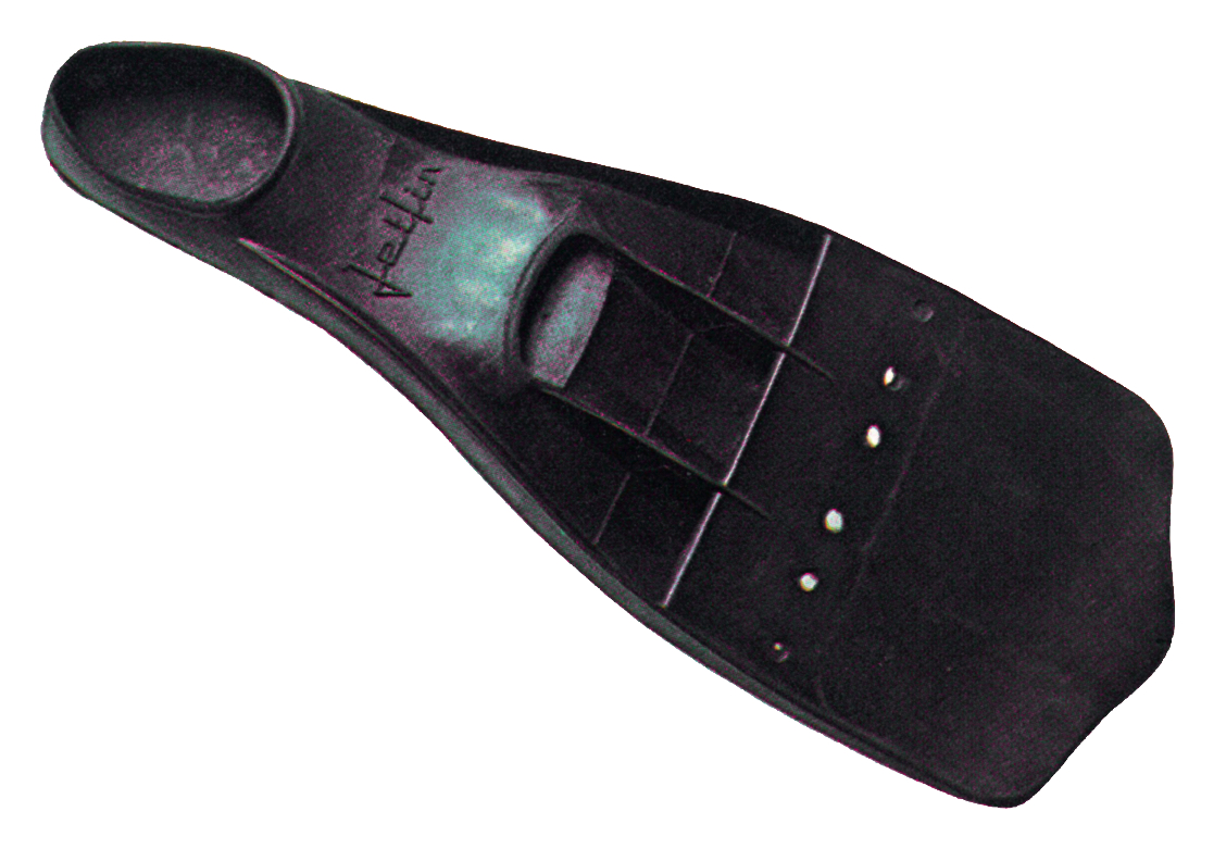 Full Foot Jetfins created by Georges Beuchat from Beuchat company in 1964